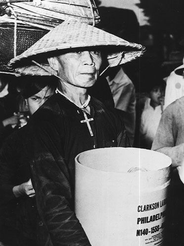 Một người di cư Thiên Chúa giáo, 1954